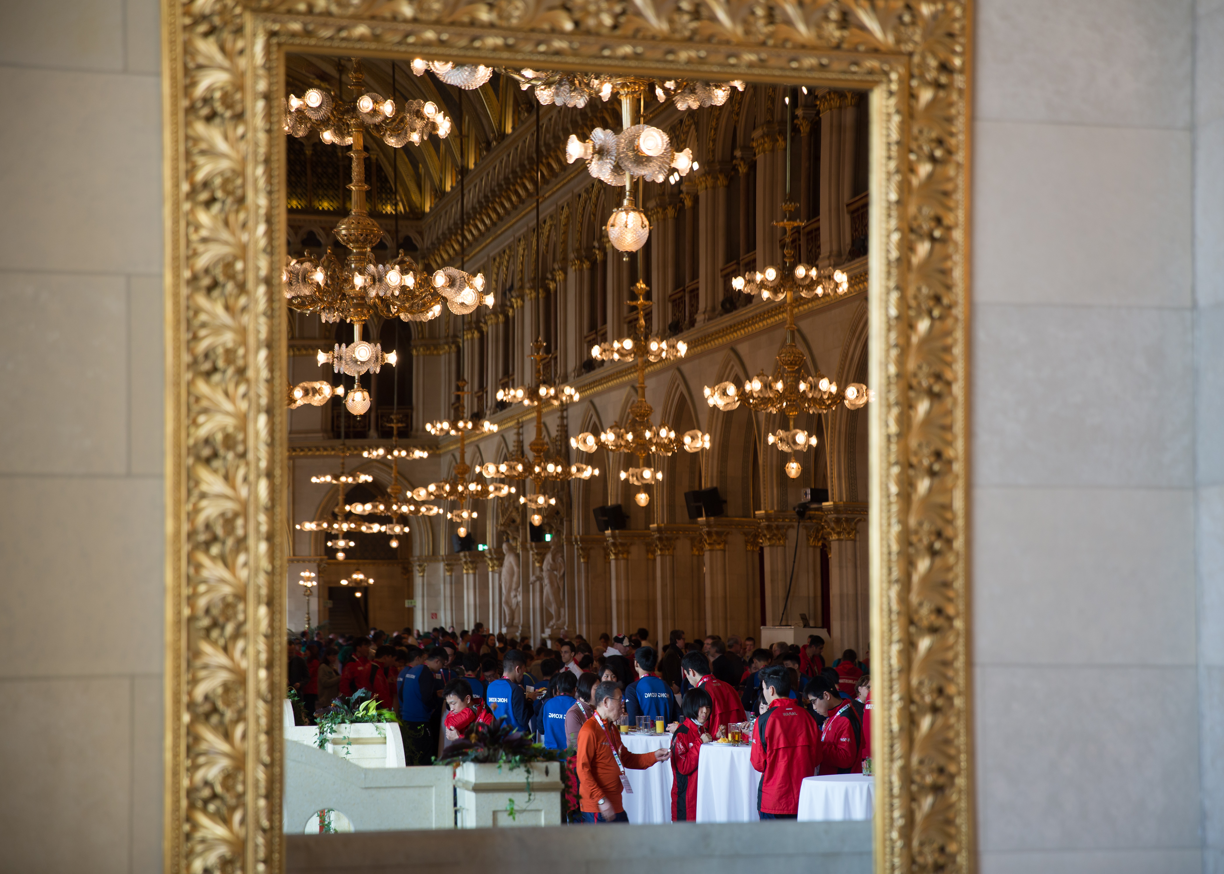 2017 Special Olympics World Winter Games, reception at Rathaus, Vienna.